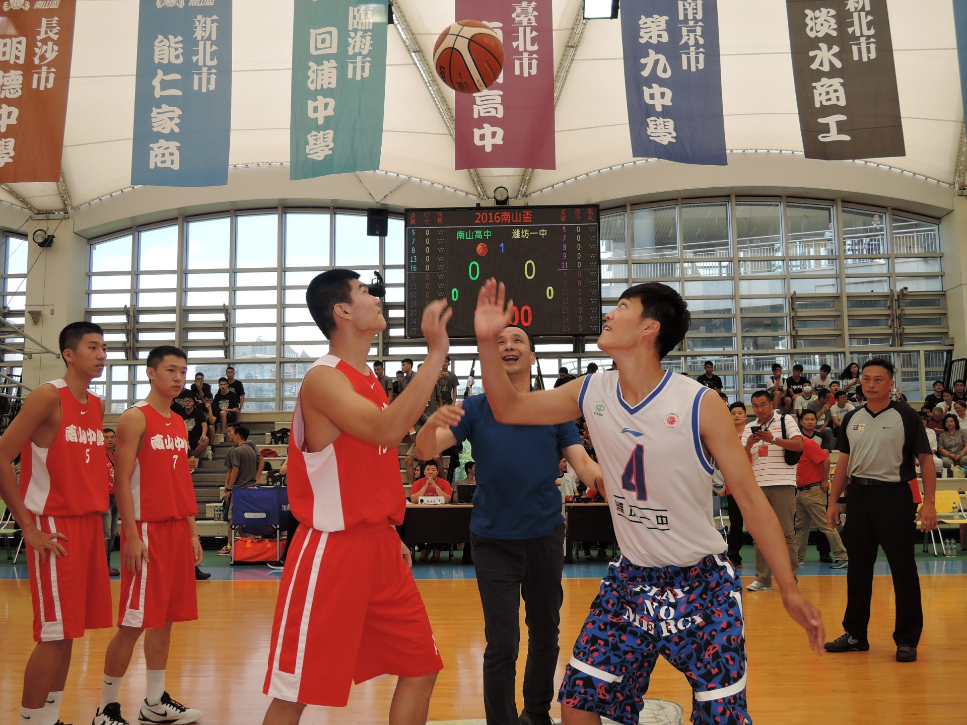 Photo taken by school photo graph club and licensed under free use for public sake. The photo was showing the Home team Nan Shan high school playing against Tan-Fung 1st middle school.